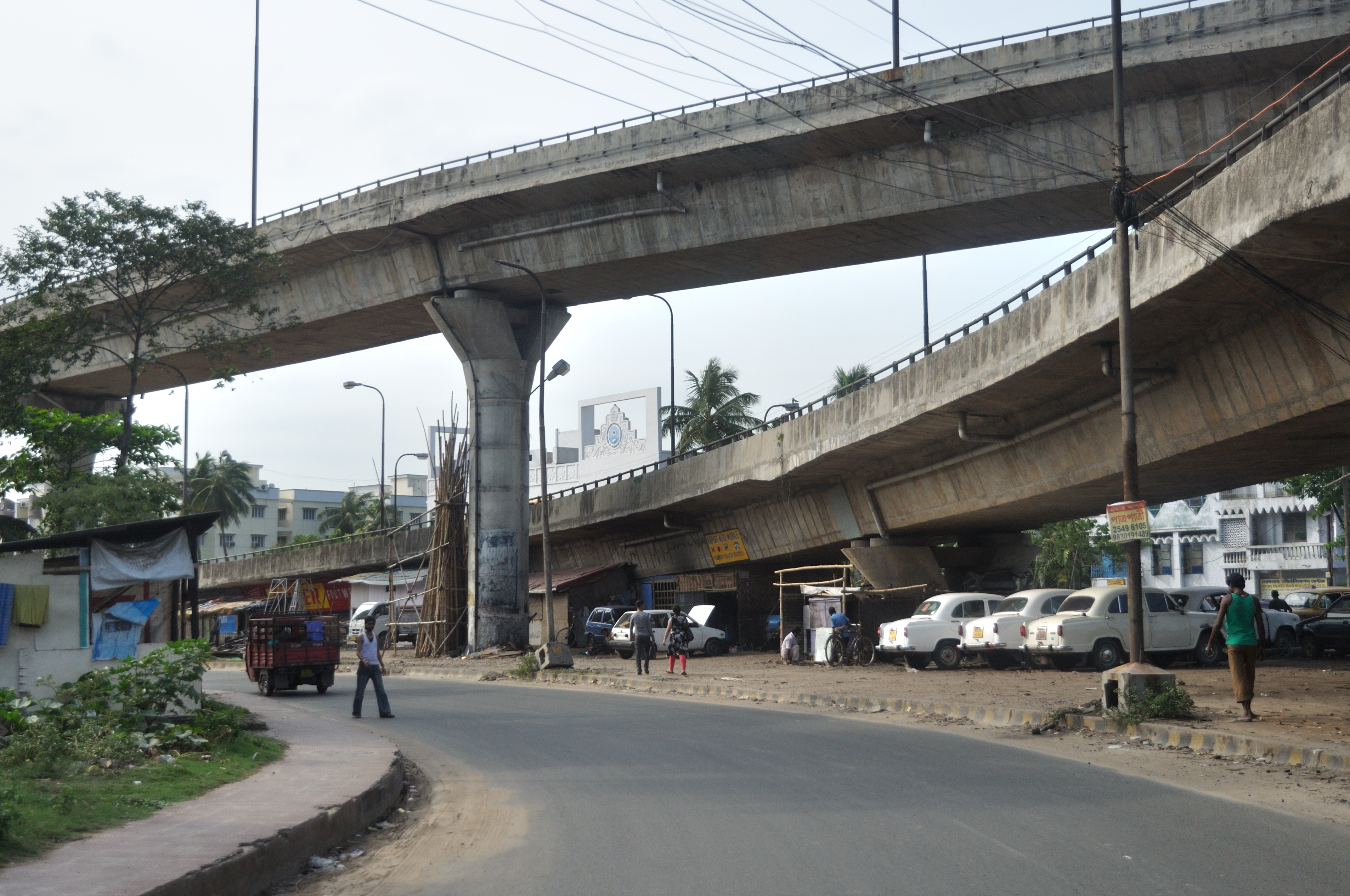 Photographed in West Bengal.